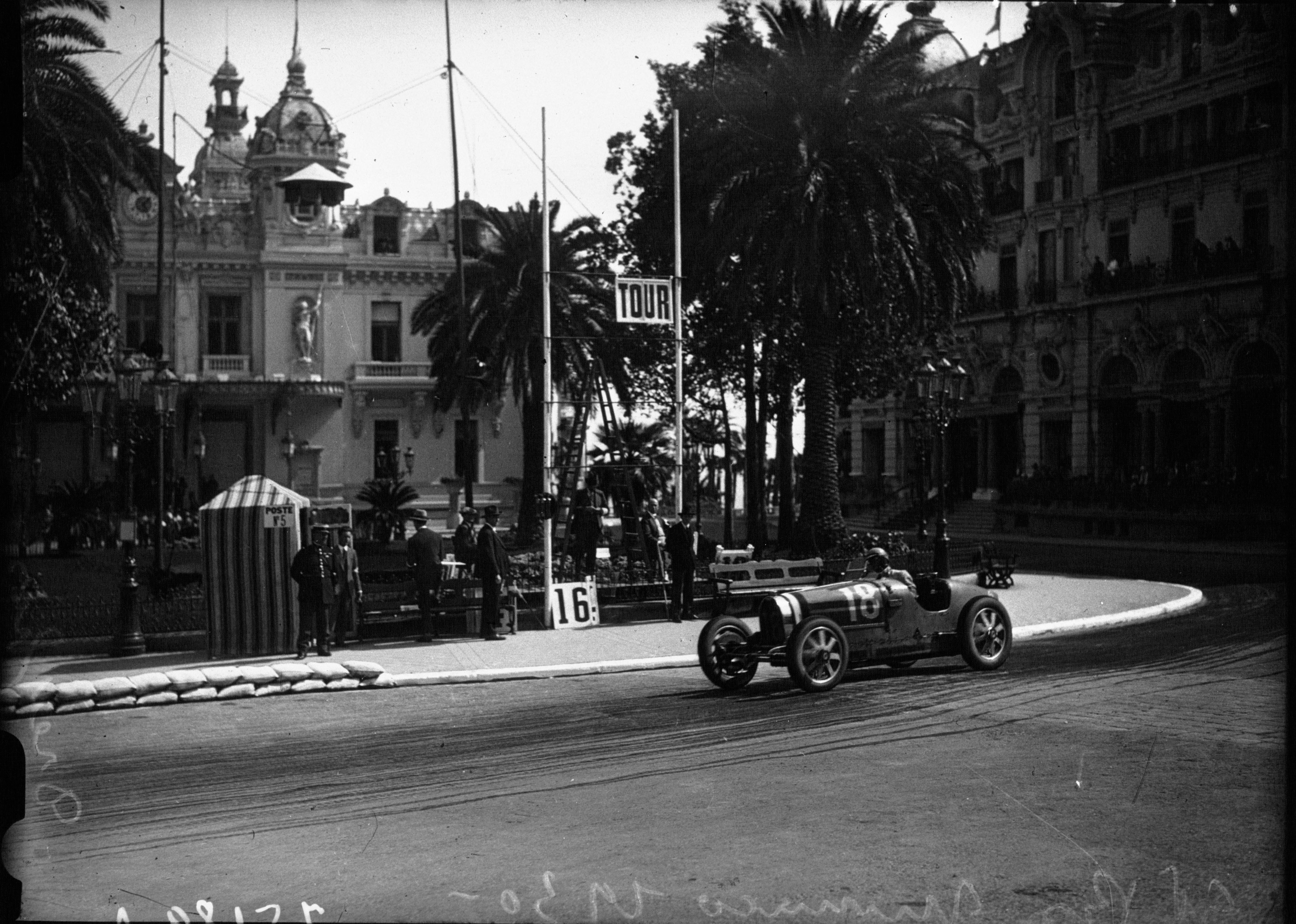 Louis Chiron at the 1930 Monaco Grand Prix with Bugatti 35 C